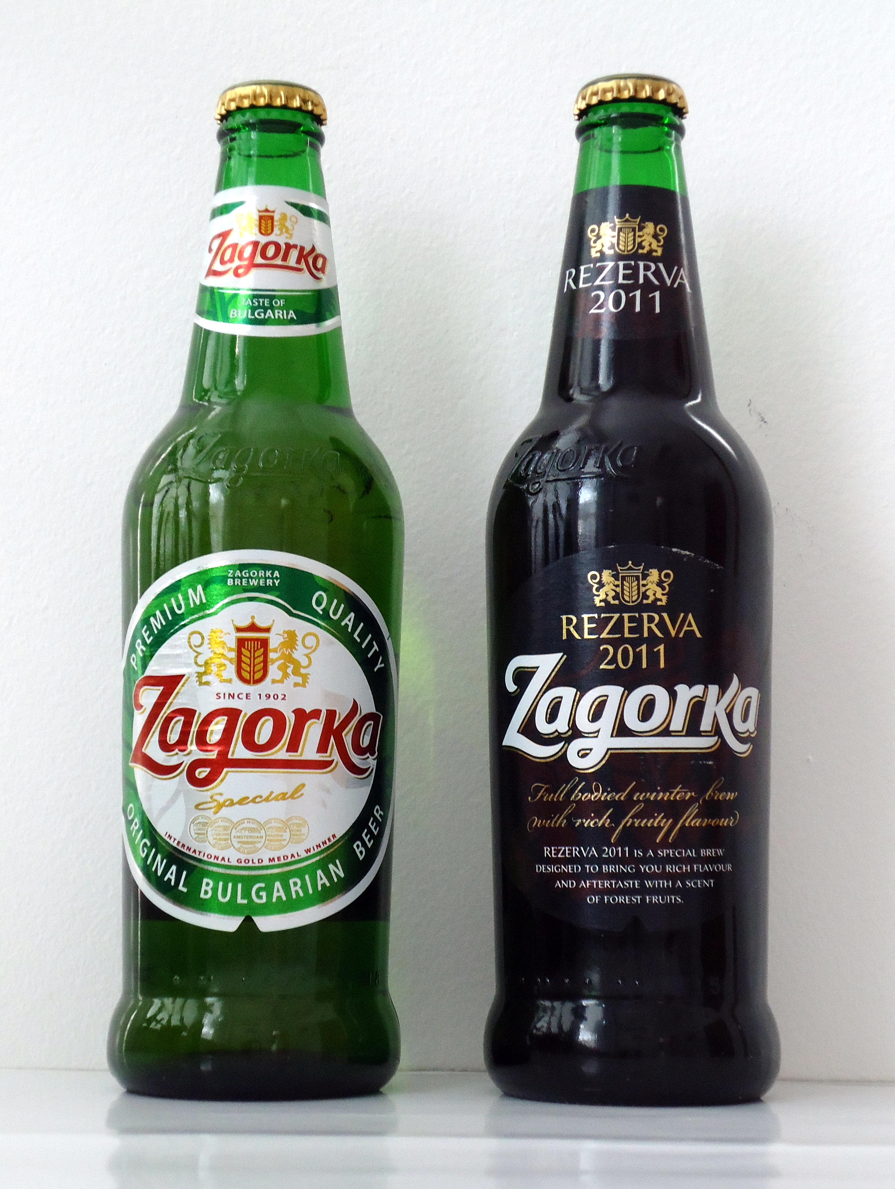 Zagorka beers